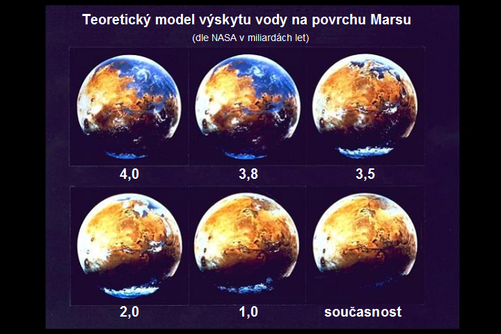 History of water on Mars, by NASA. Czech version. Translated from English.